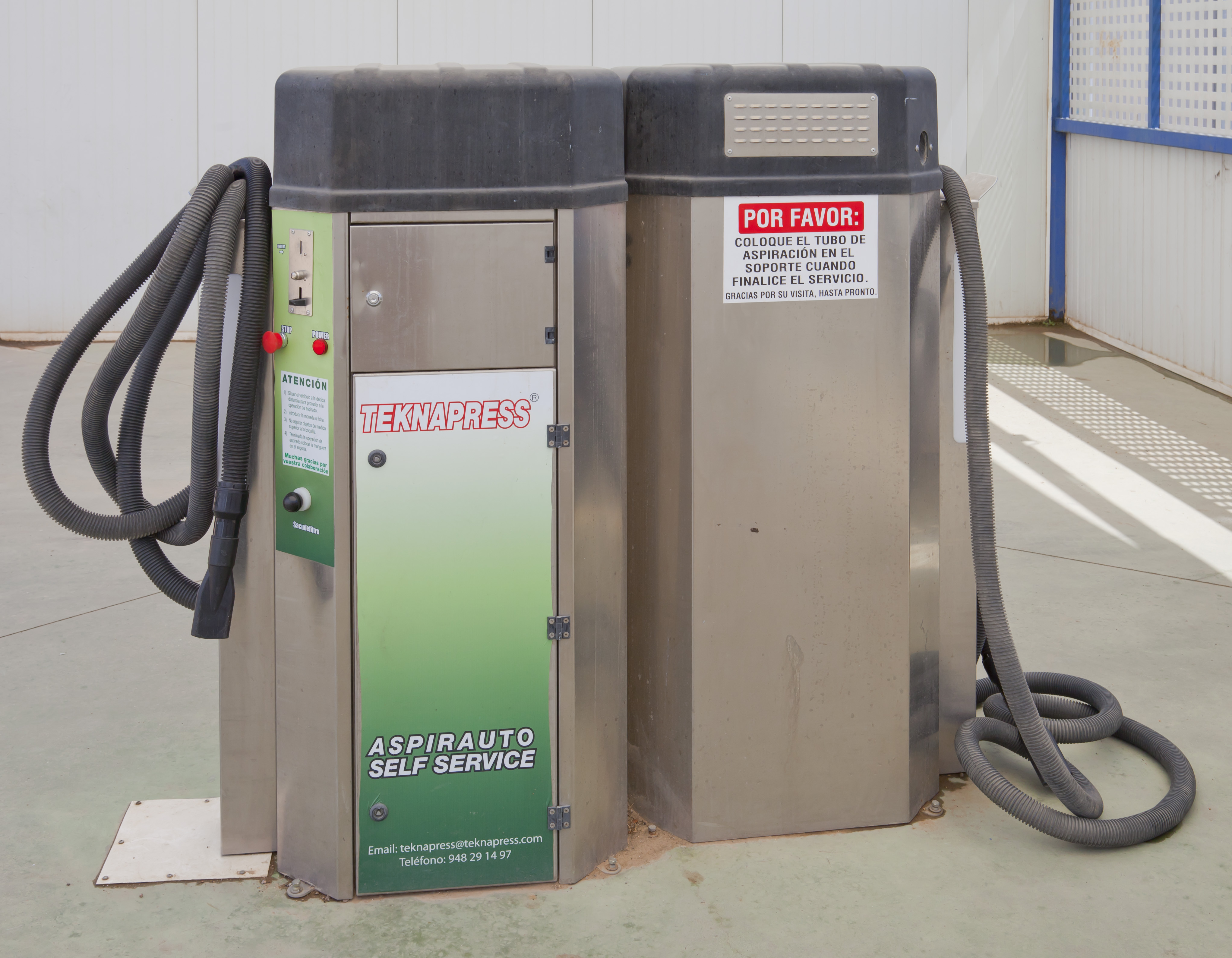 Manual car washing system, Ágreda, Spain